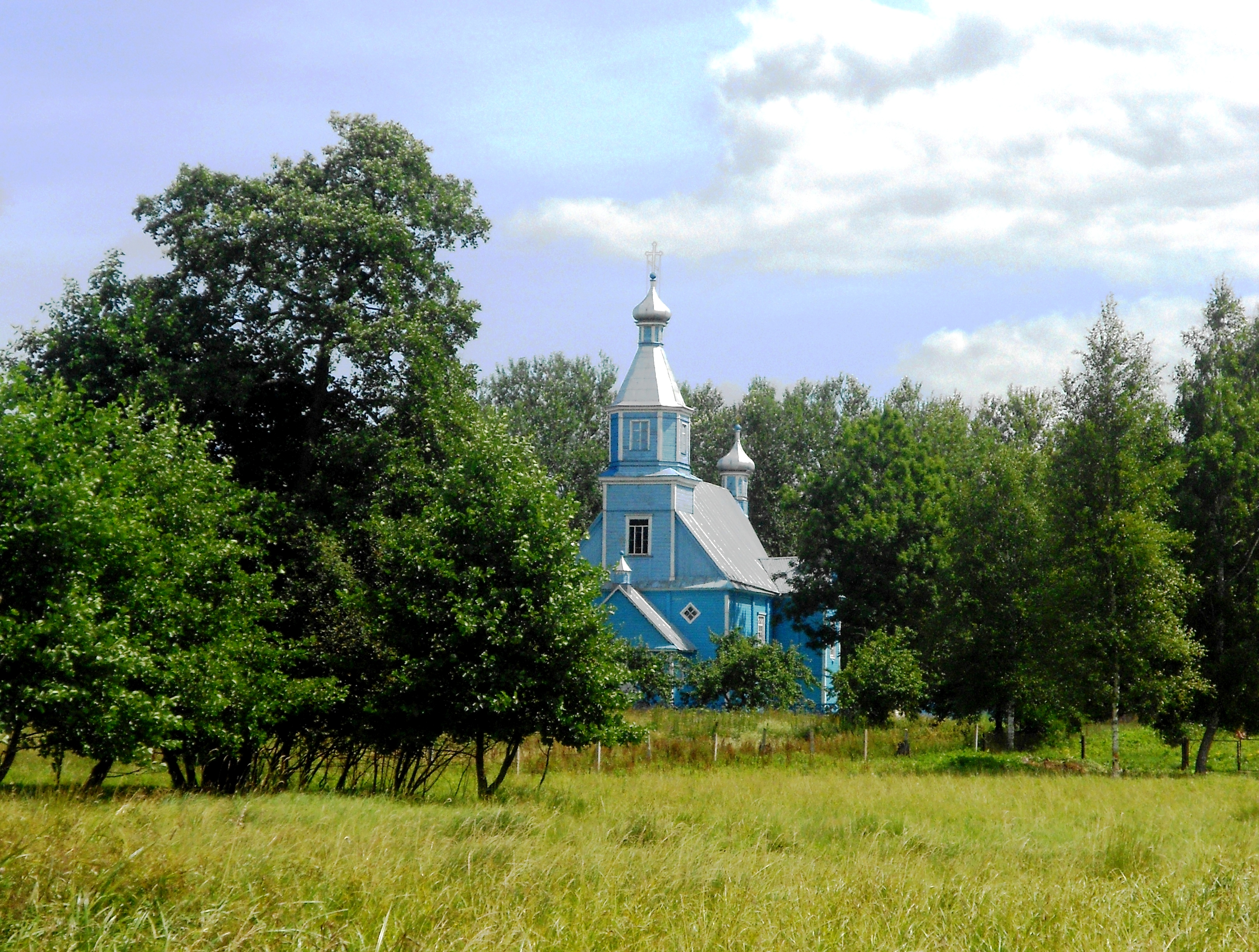 Orthodox Сhurch of the Assumption. Laŭryšava, Navahrudak Rajon, Hrodzienskaja Voblaść, Belarus. Year of construction: 1775.